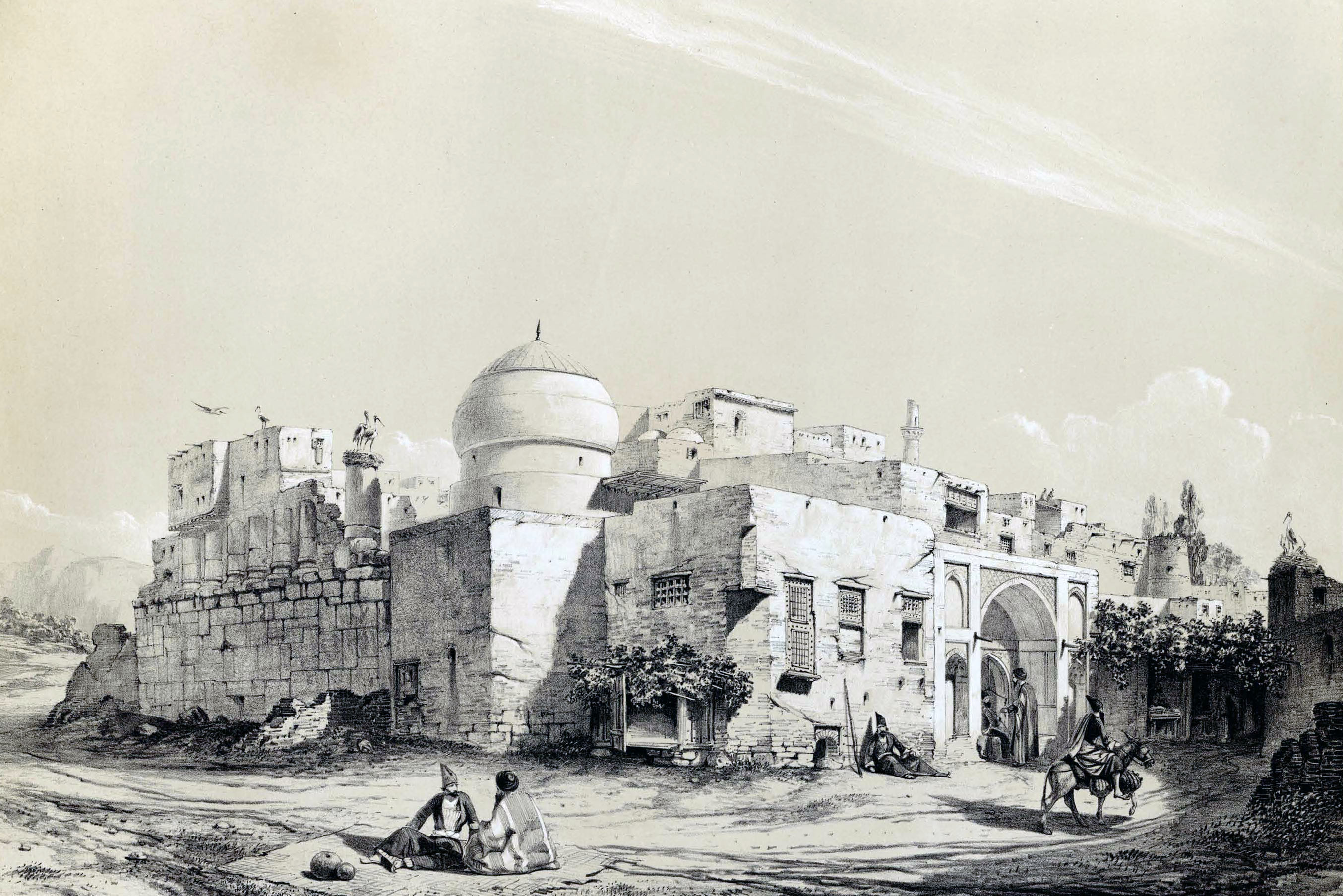 Kingavar